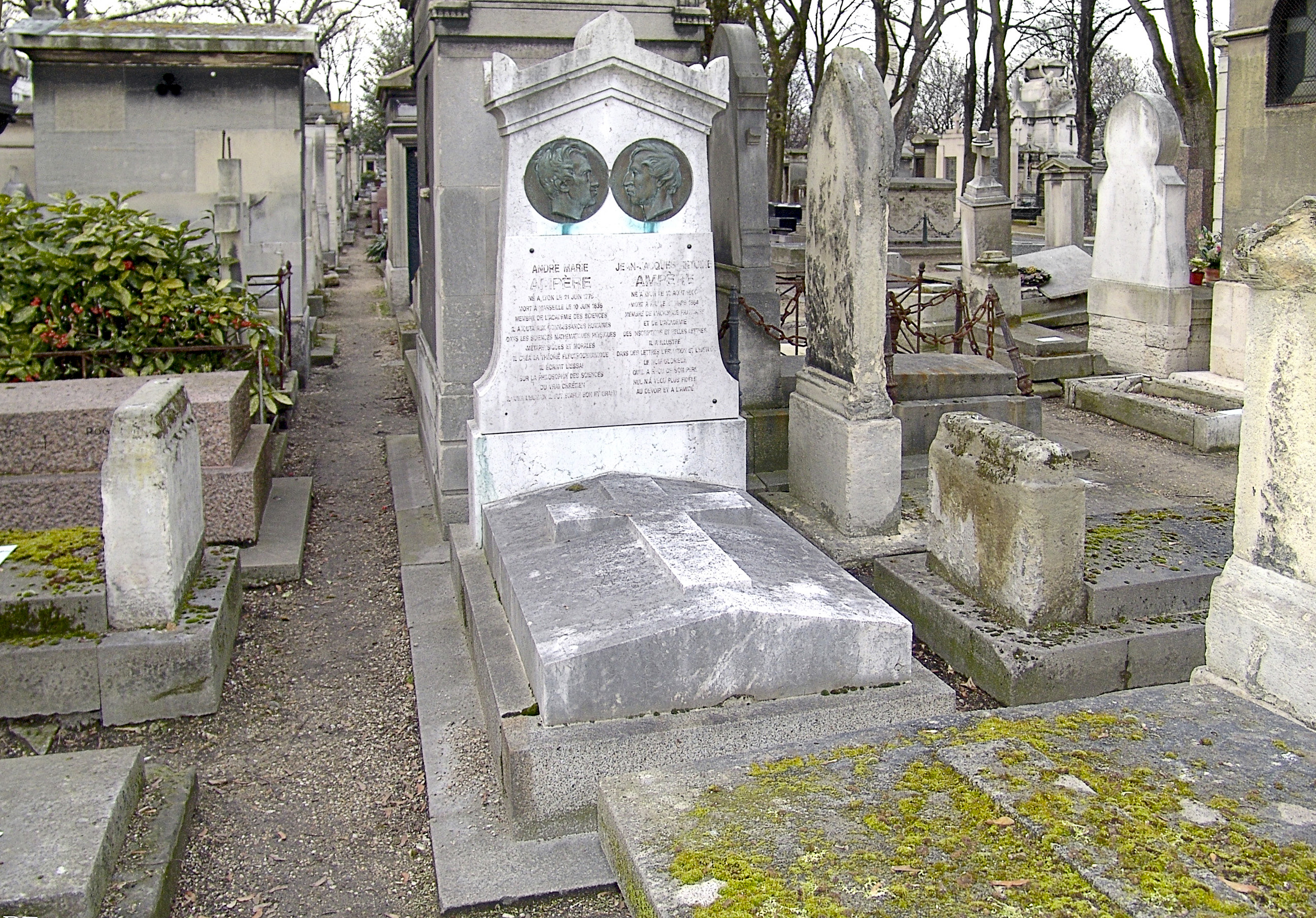 Grave of André Marie Ampère - Montmartre Cimetery – Paris